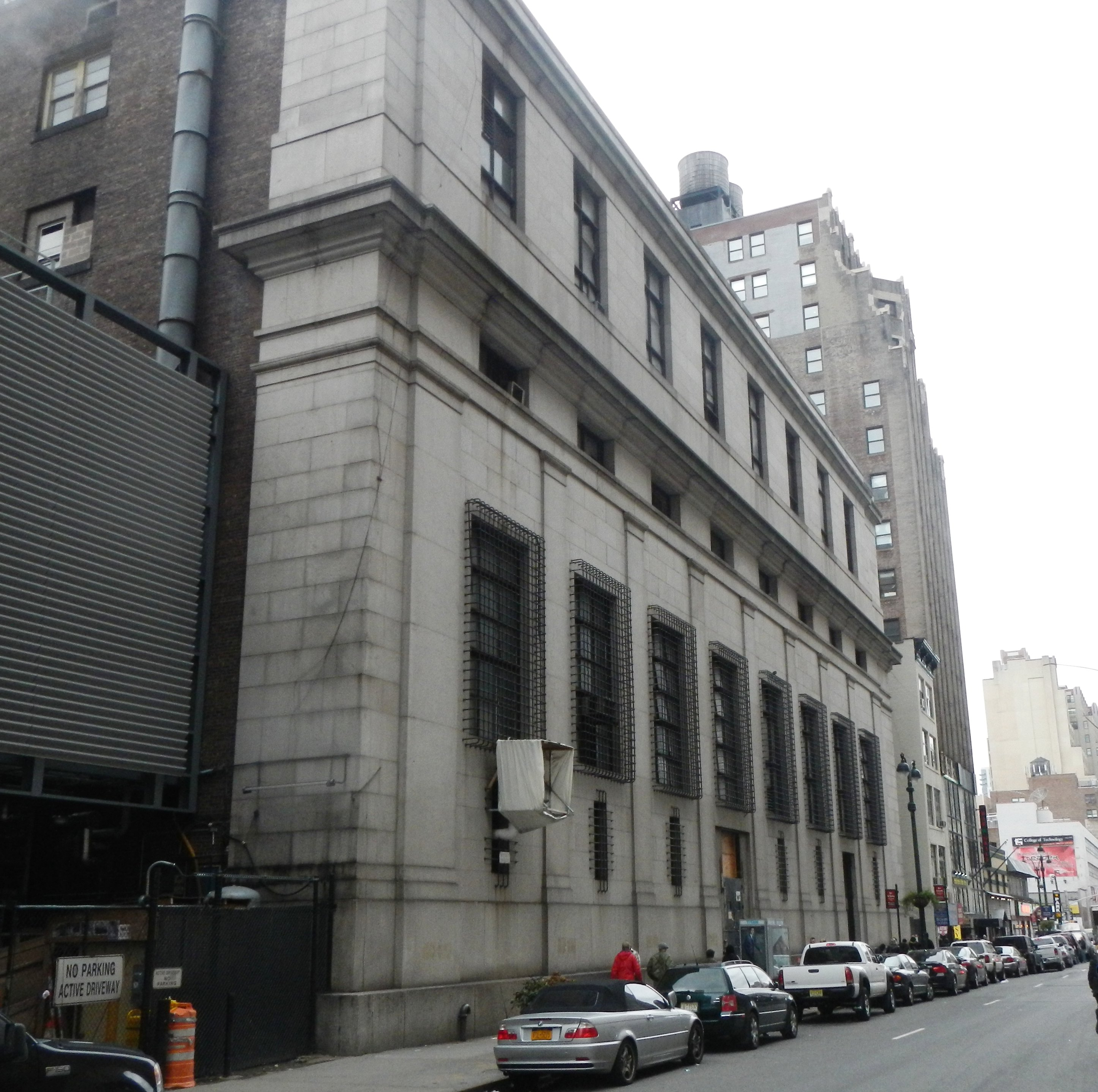 Looking west across 31st St at powerhouse for Penn Station on a cloudy day.